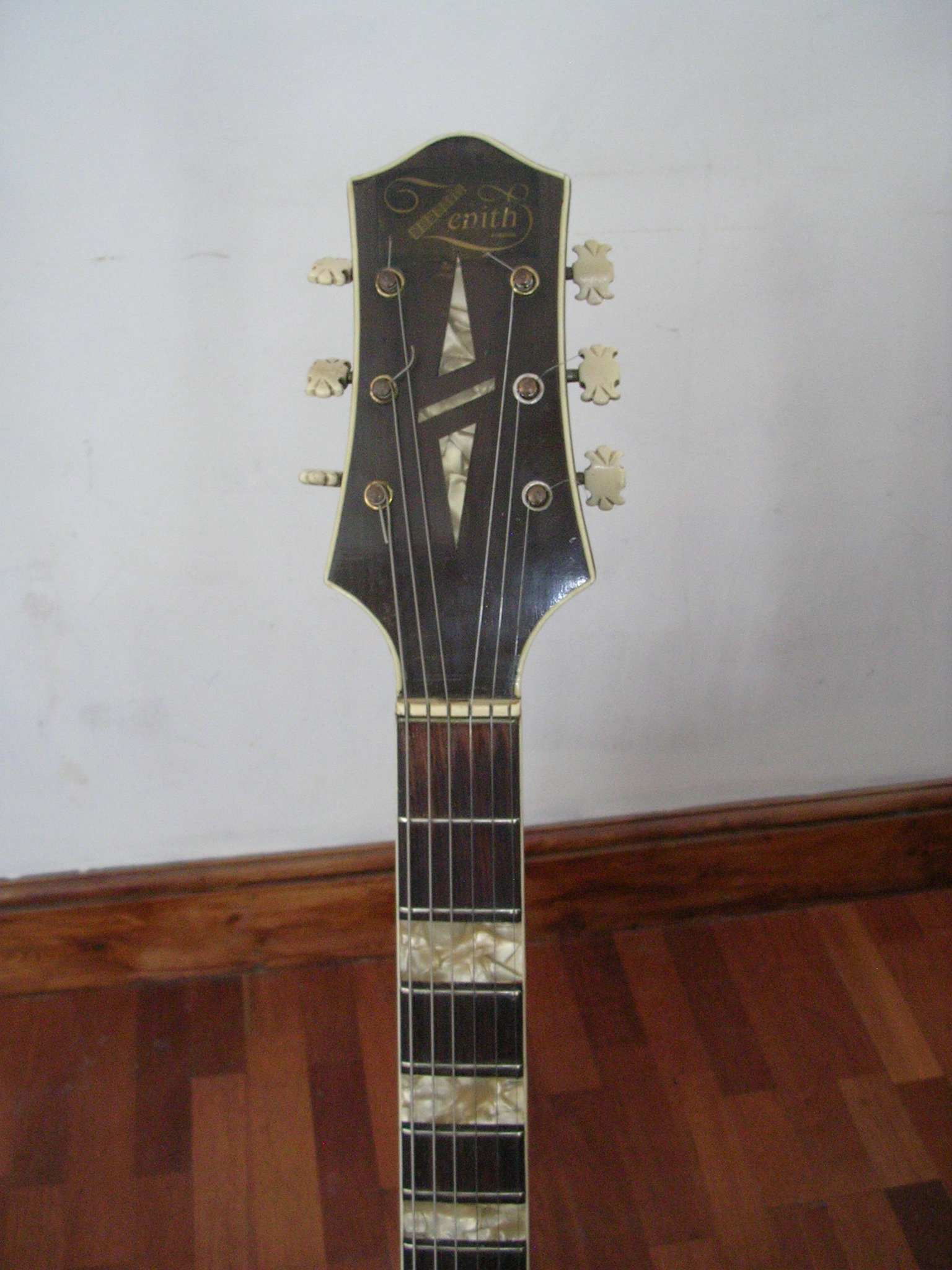 Zenith guitar head